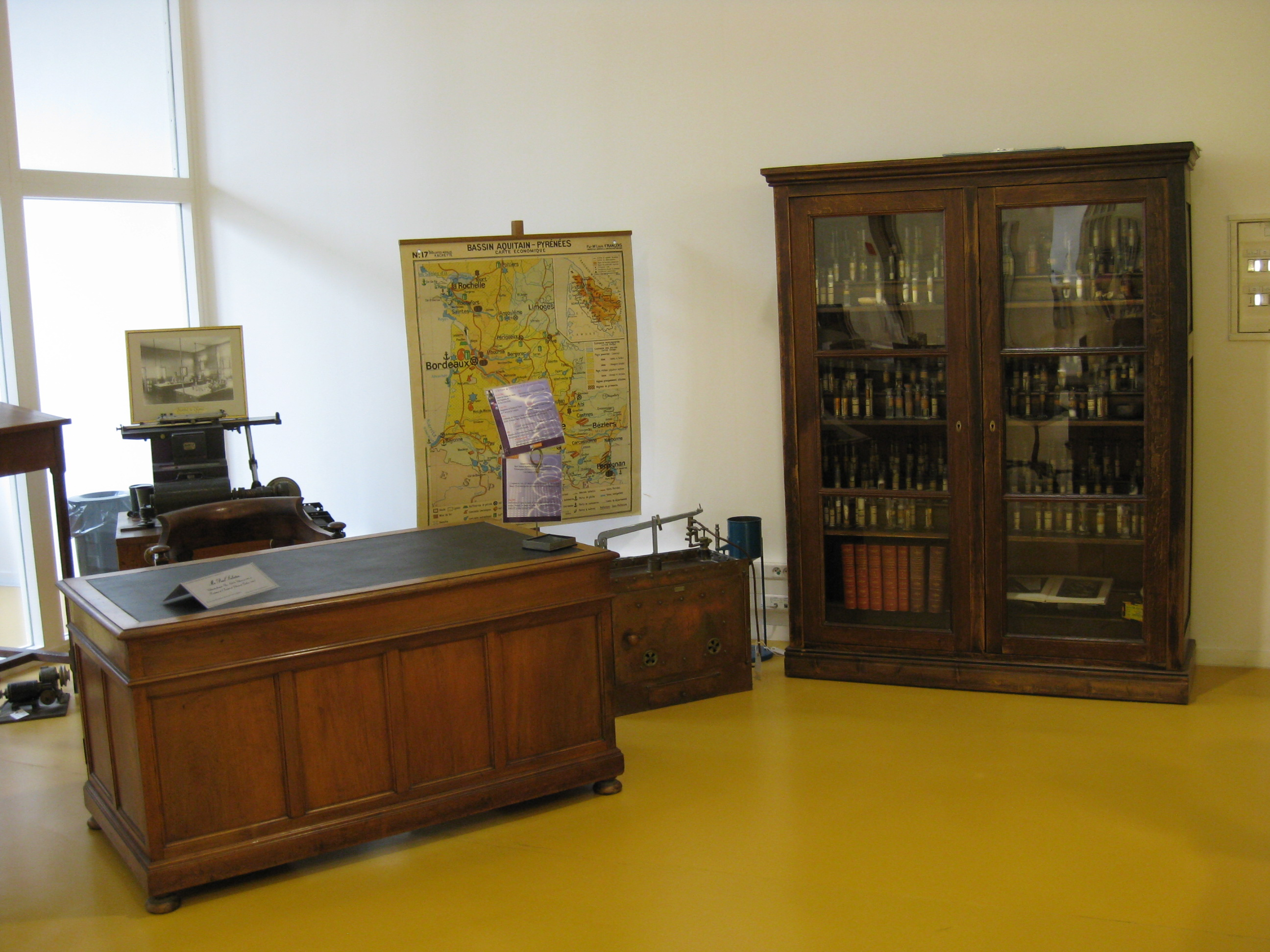 Furniture from the office of Paul Sabatier, when Dean of the Faculty of Science at the University of Toulouse, now on display at that university. There is a glass-fronted cupboard containing many of his chemicals, and a map of the local region.